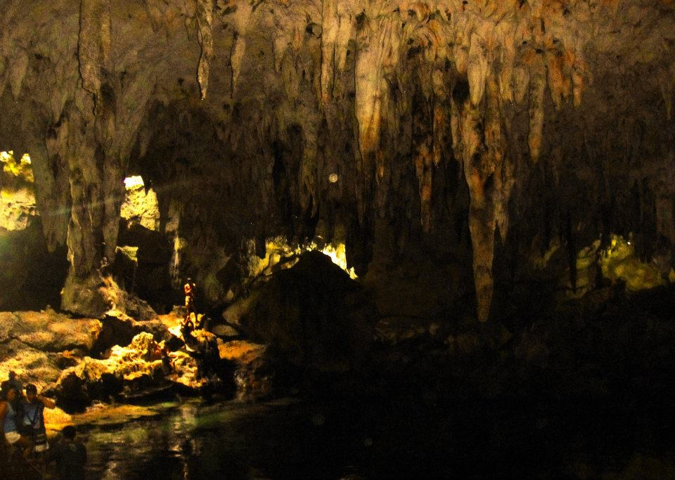 Hinagdanan cave, Bohol